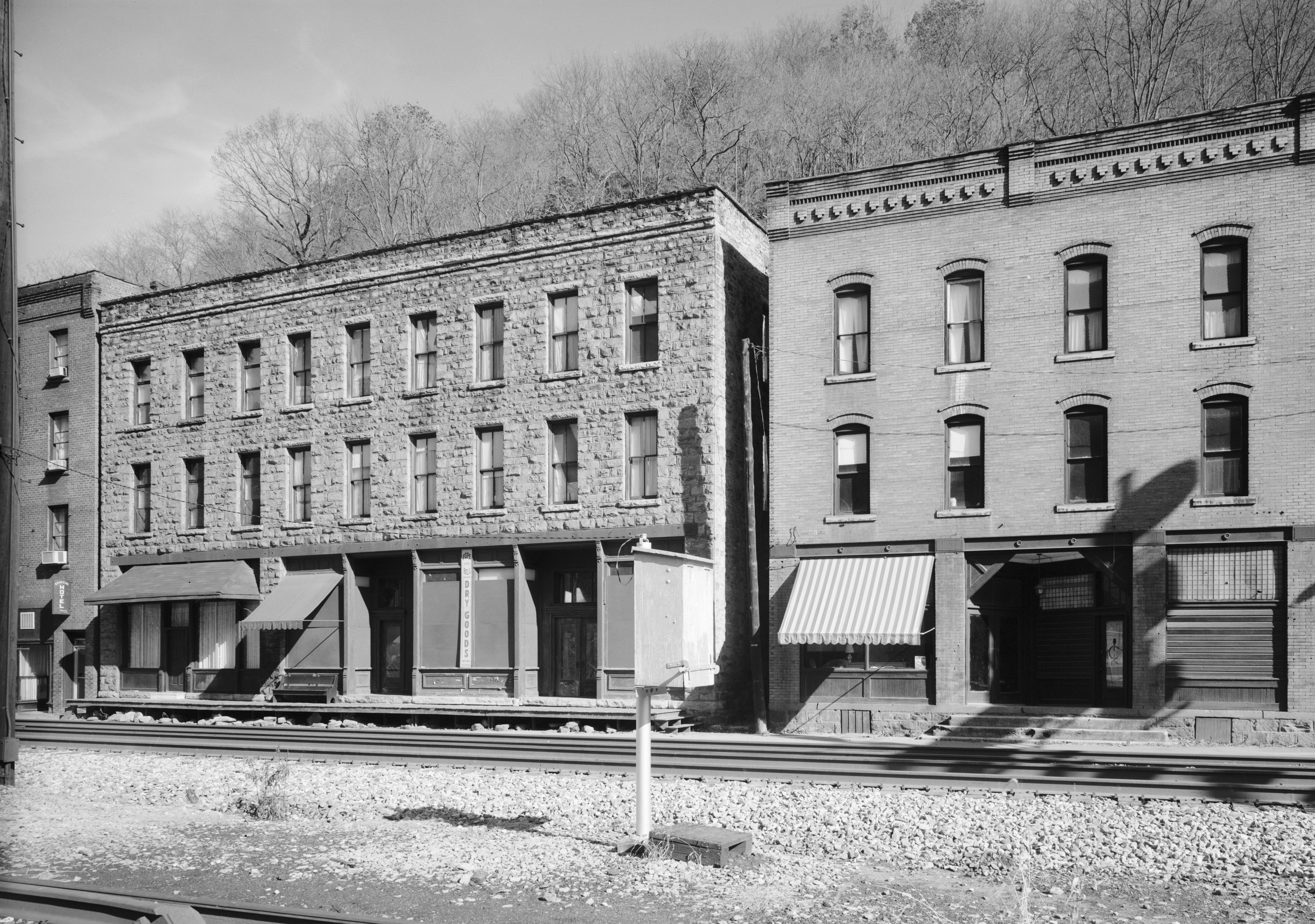 Thurmond, West Virginia commercial district, buildings along railroad tracks